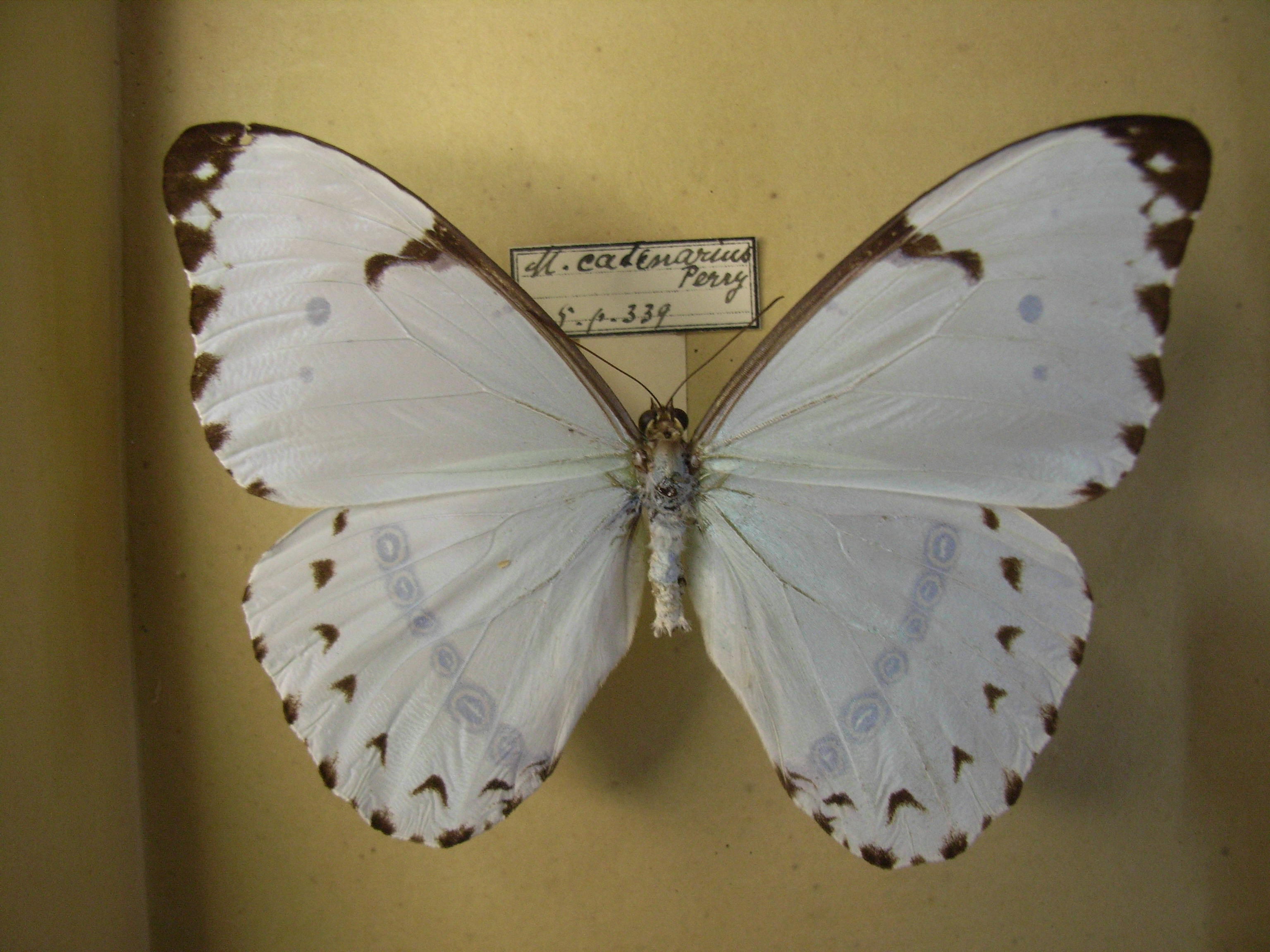 Morpho epistrophus catennaria Ex Coll Museum Wiesbaden